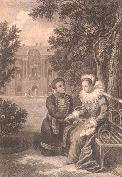 False Dmitriy I and Marina Mniszech. Engraving created by G. F. Galaktionov in the early XIX century.